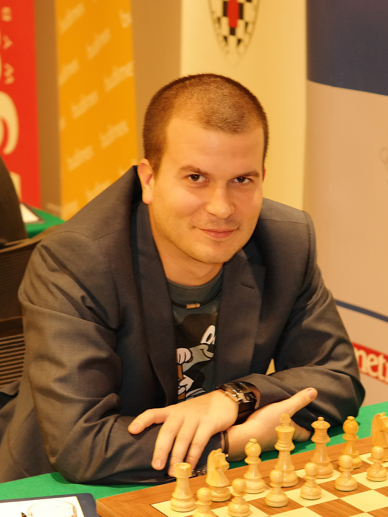 IM Zbigniew Pakleza, Polish Chess Championship, Warsaw 2014